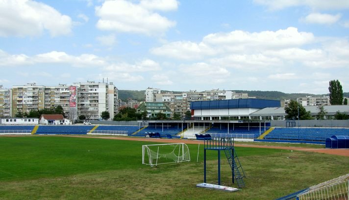 spartakvarnastadium